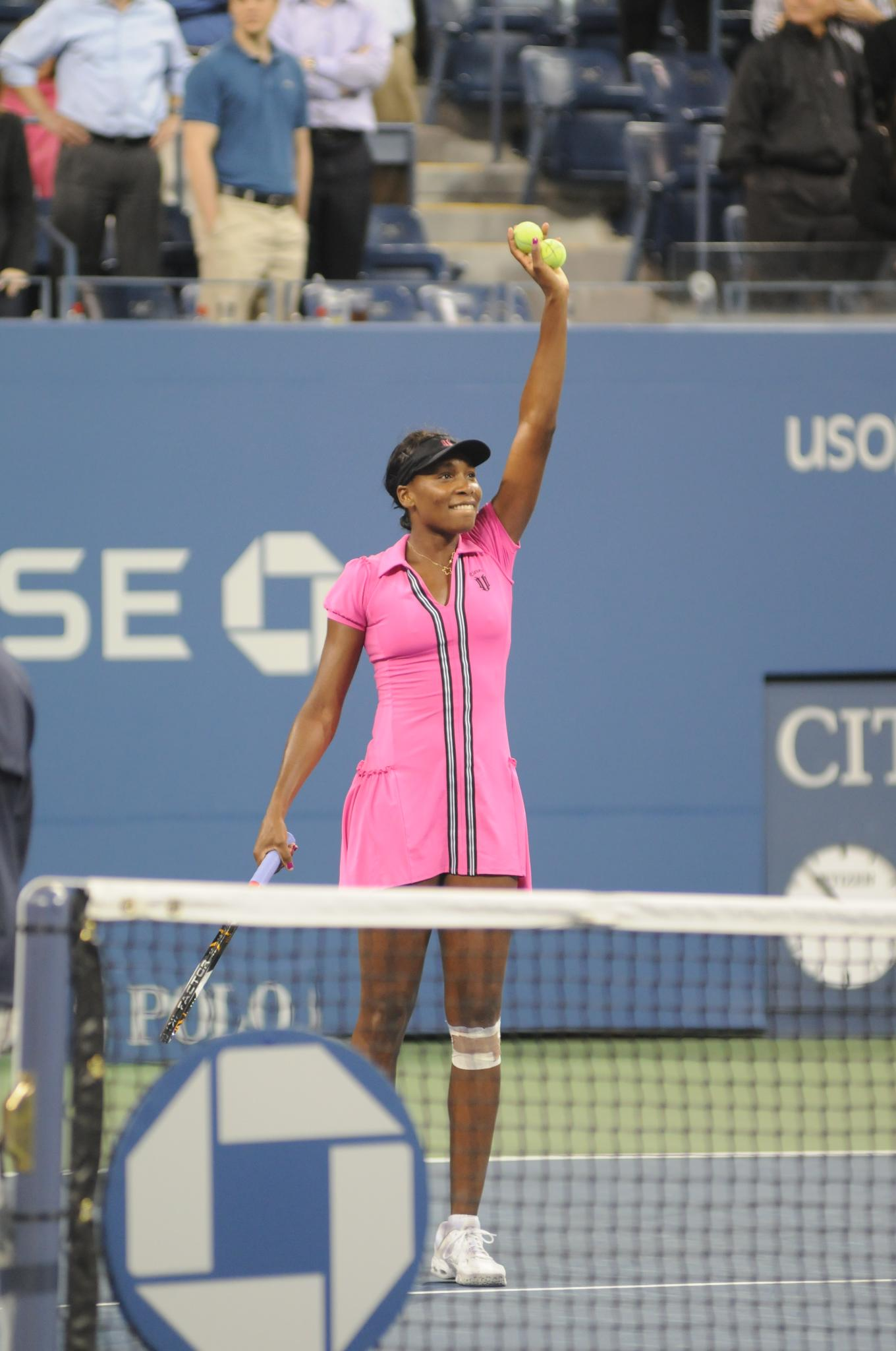 Venus Williams at the 2009 US Open